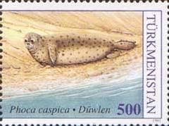 The Caspian Seal.